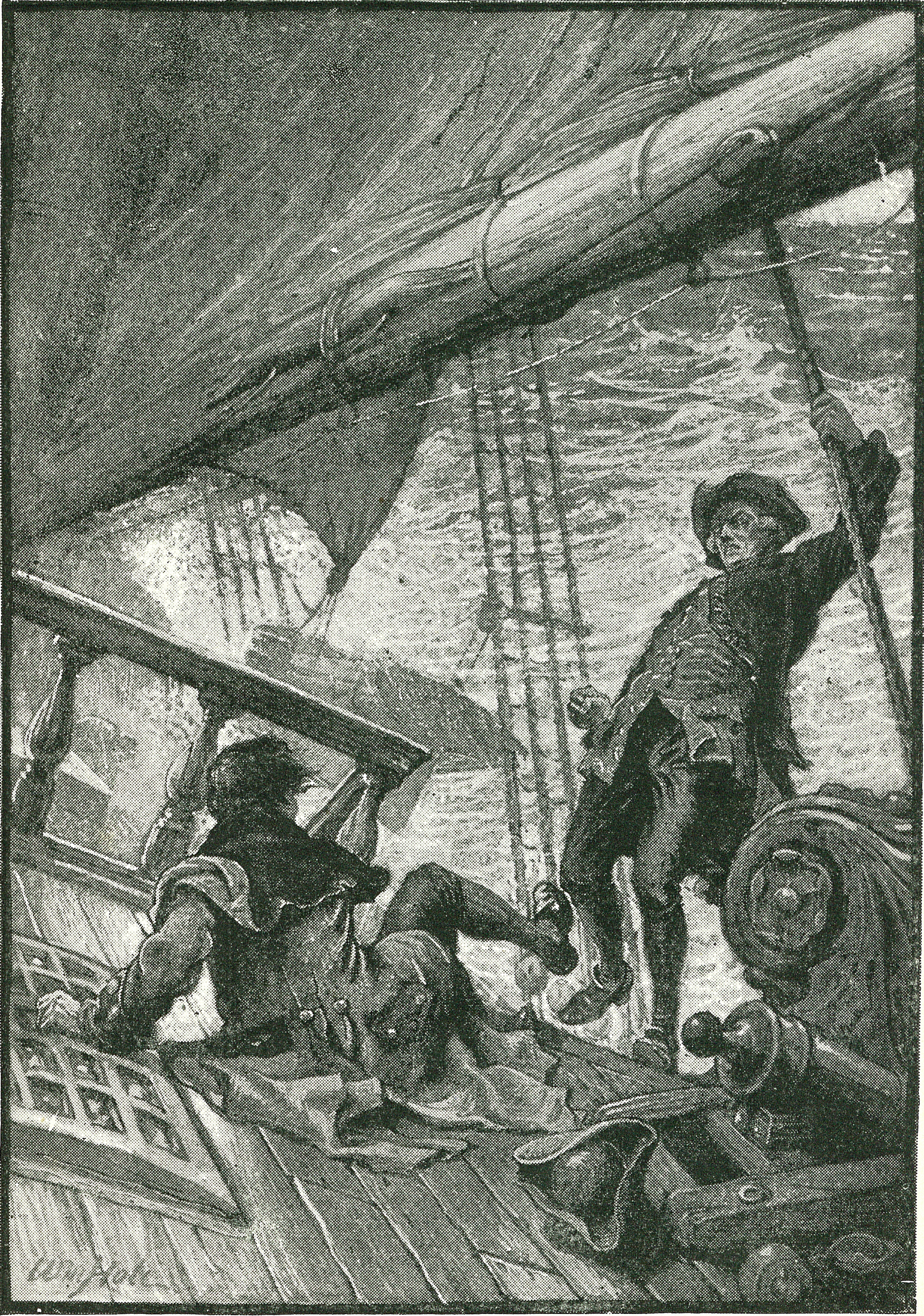 "I were liker a man if I struck this creature down."